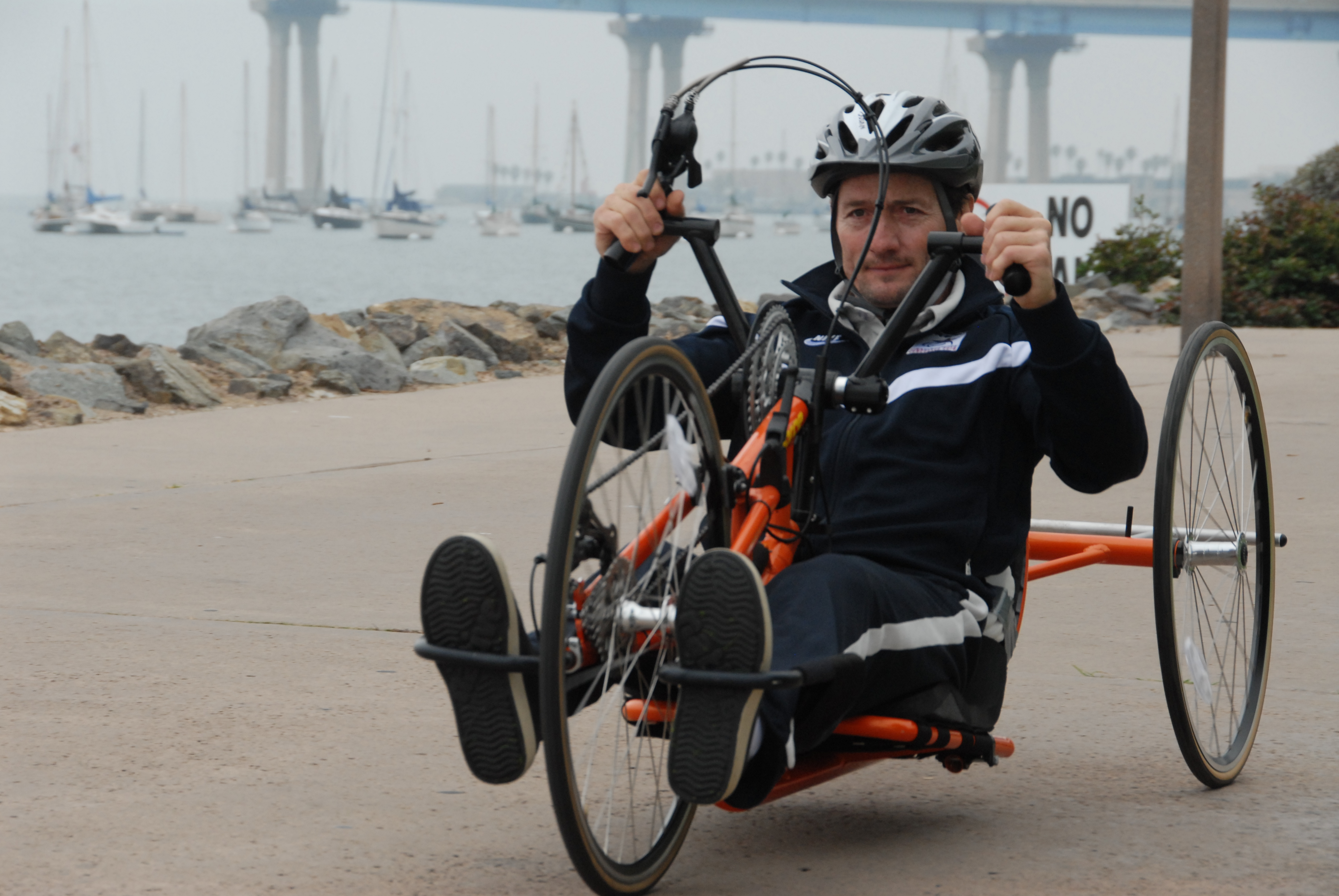 Veterans' Administration Sports Clinic, San Diego; a participant using a recumbent bicycle with hand pedals.